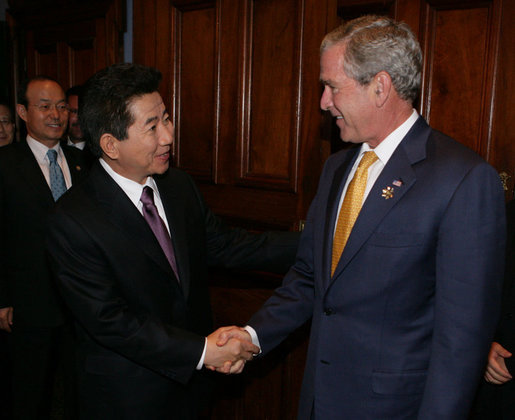 President George W. Bush welcomes President Roh Moo-hyun of the Republic of Korea, to a meeting Friday, Sept. 7, 2007, at the InterContinental hotel in Sydney. President Bush told his counterpart, "...When we have worked together, we have shown that it's possible to achieve the peace on the Korean Peninsula that the people long for. So thank you, sir."